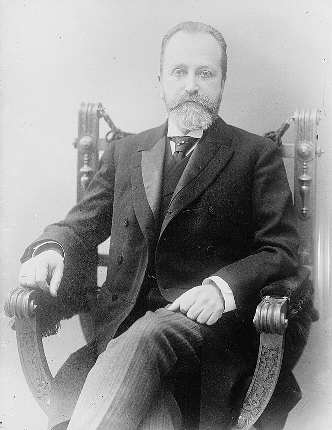 The former Prime Minister of Russian Empire Vladimir Nikolaevič Kokovcov (1853-1943)